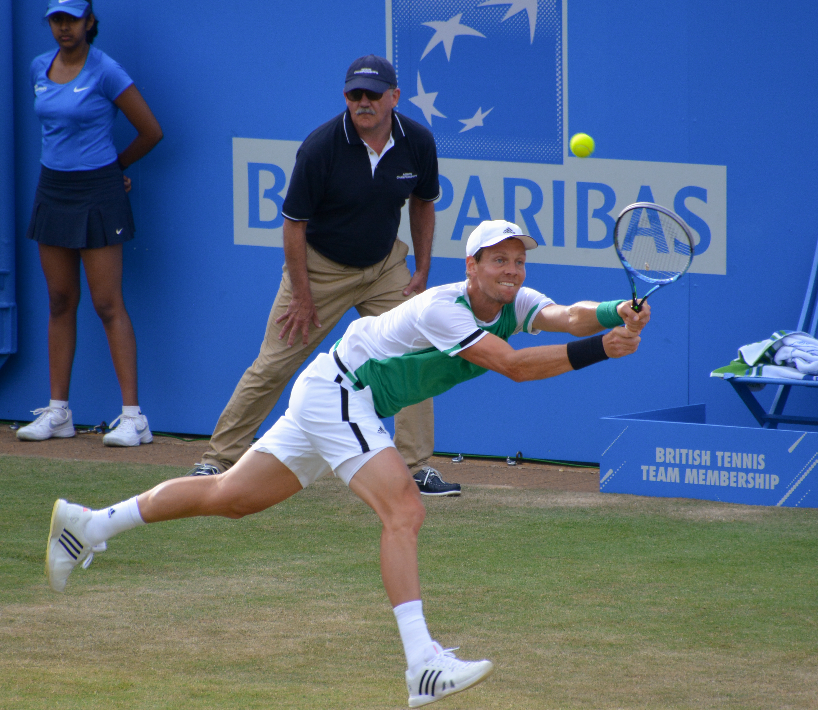 Aegon Championships 2017.